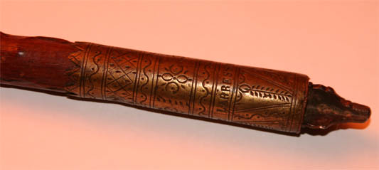 Makila detail